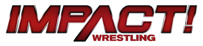 The new Impact Wrestling logo, used after their move to AXS TV.